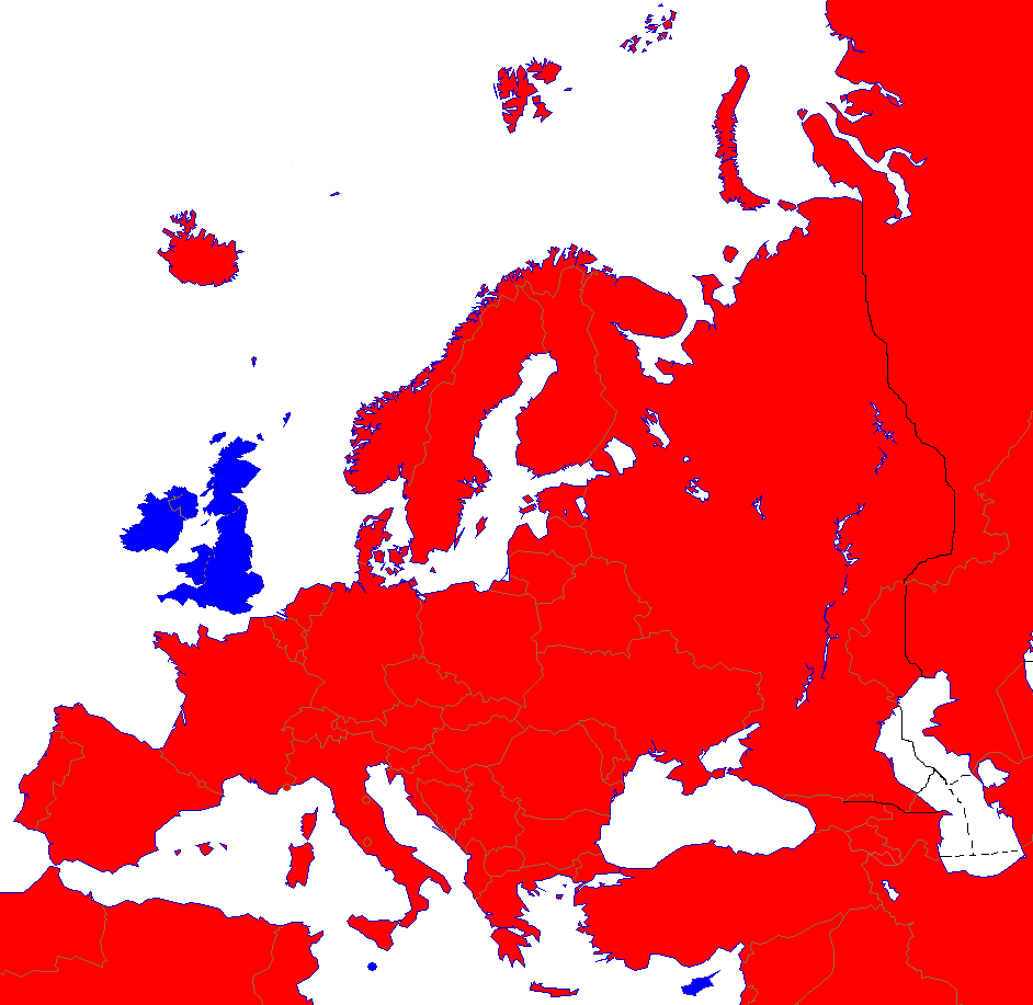 Right- and left-hand traffic in Europe. Right-hand traffic Left-hand traffic